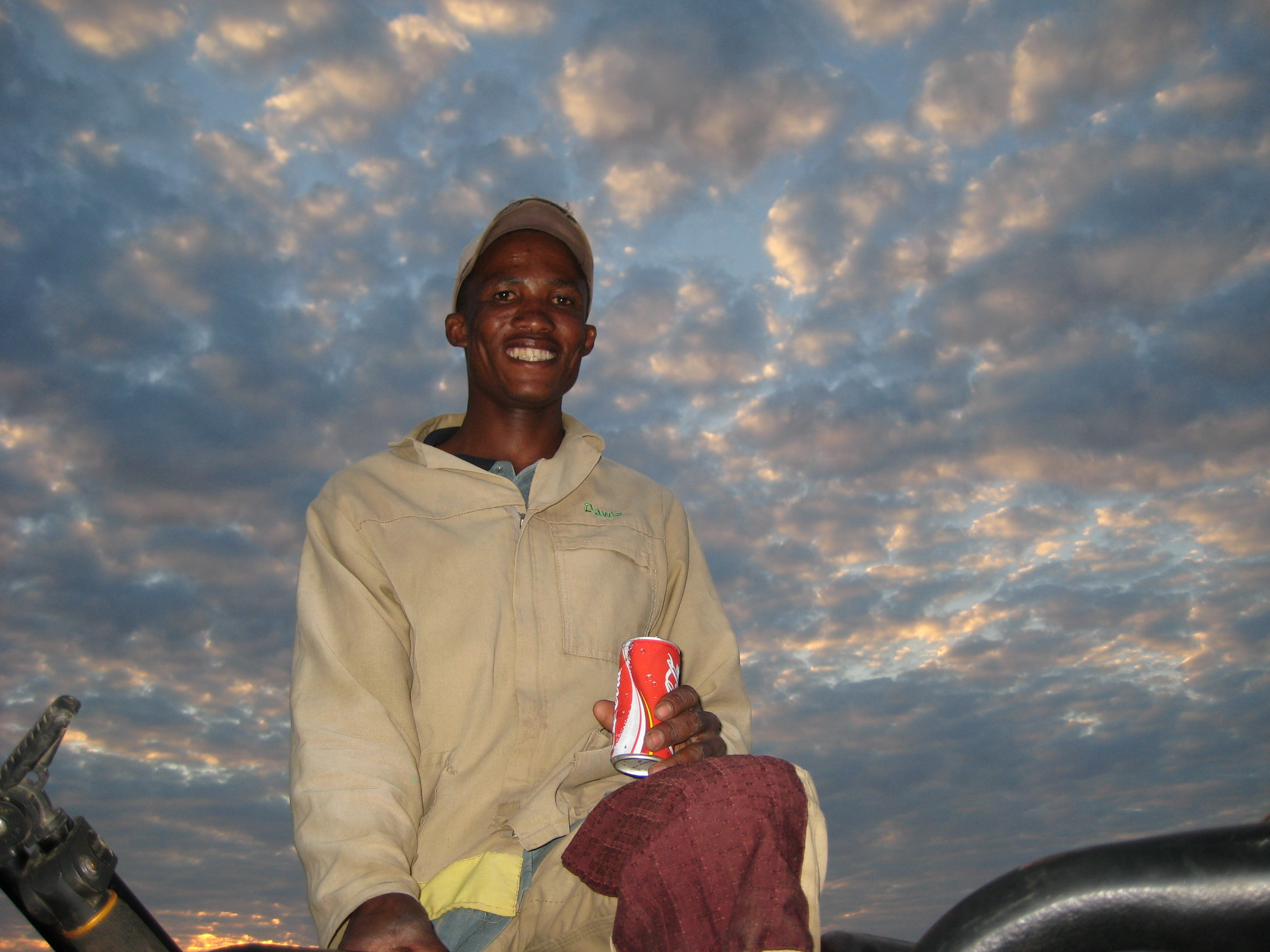 Nama Man, Namibia